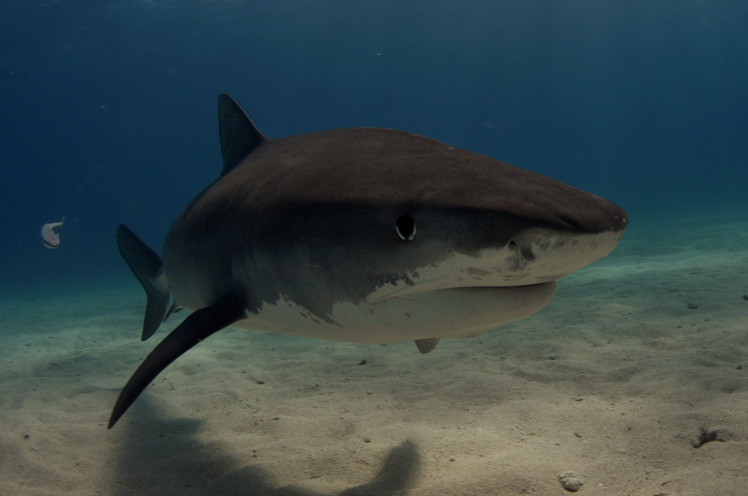 Tigershark Bahamas